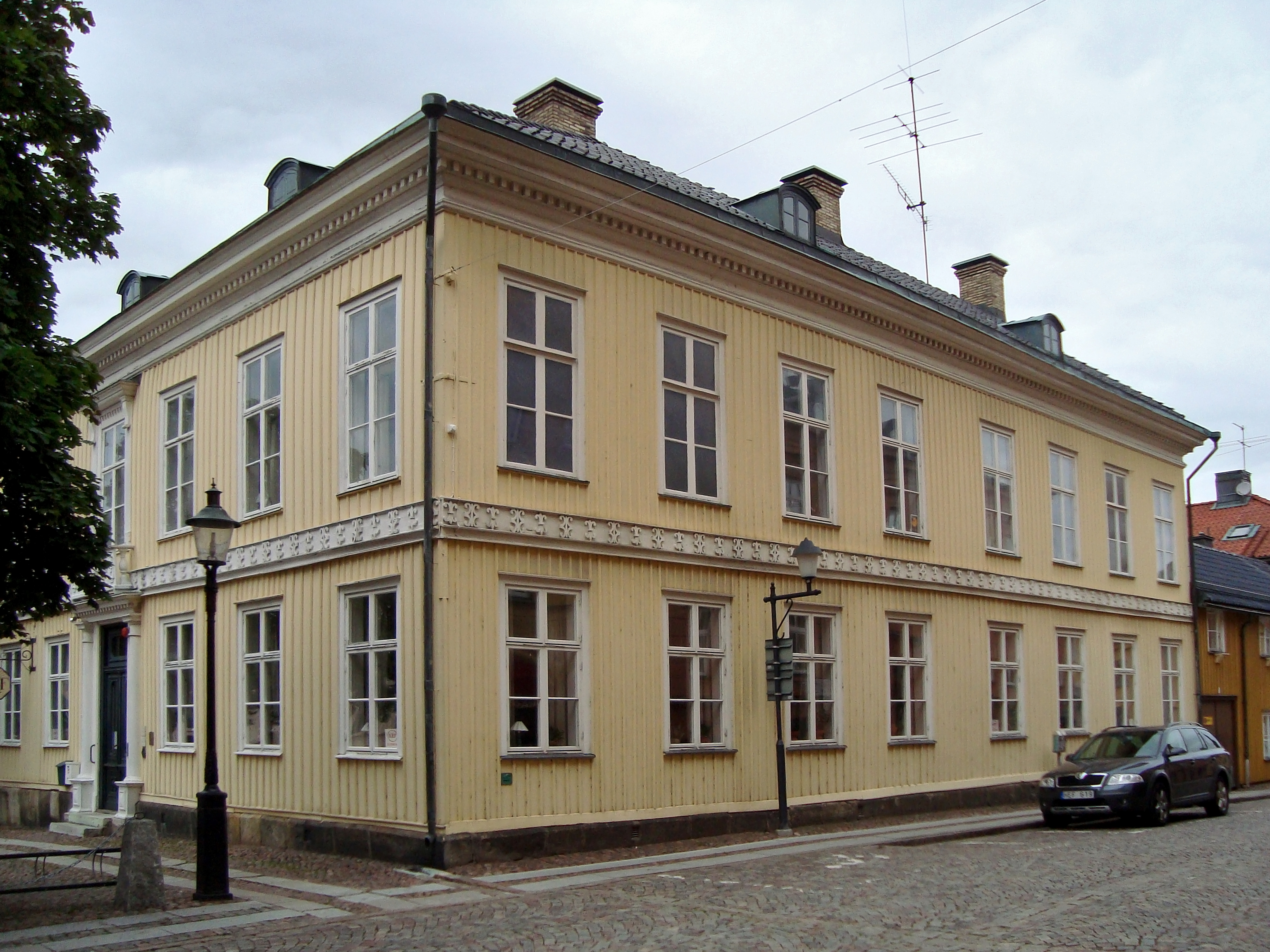 Bertha Petterssons hus, Mariestad, Sweden